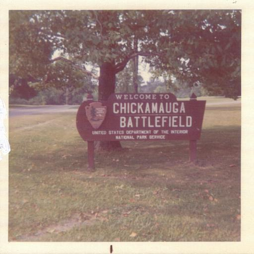 Chickamauga battlefield, TN. I took photo with Kodak camera.